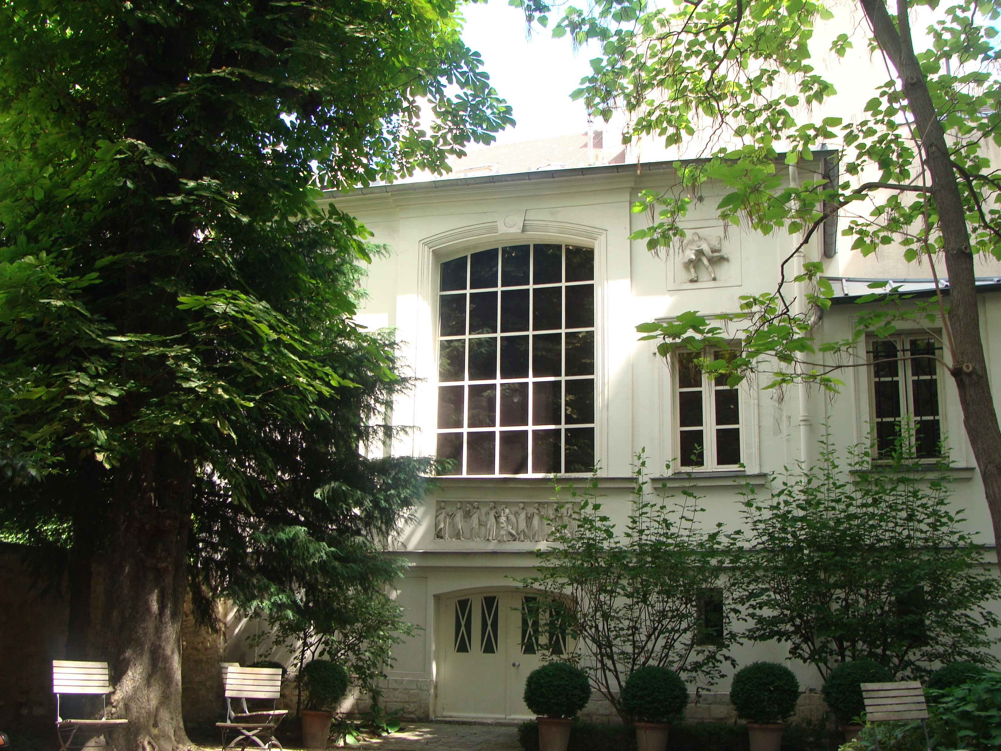 Delacroix Museum - The Studio from the Garden, Paris